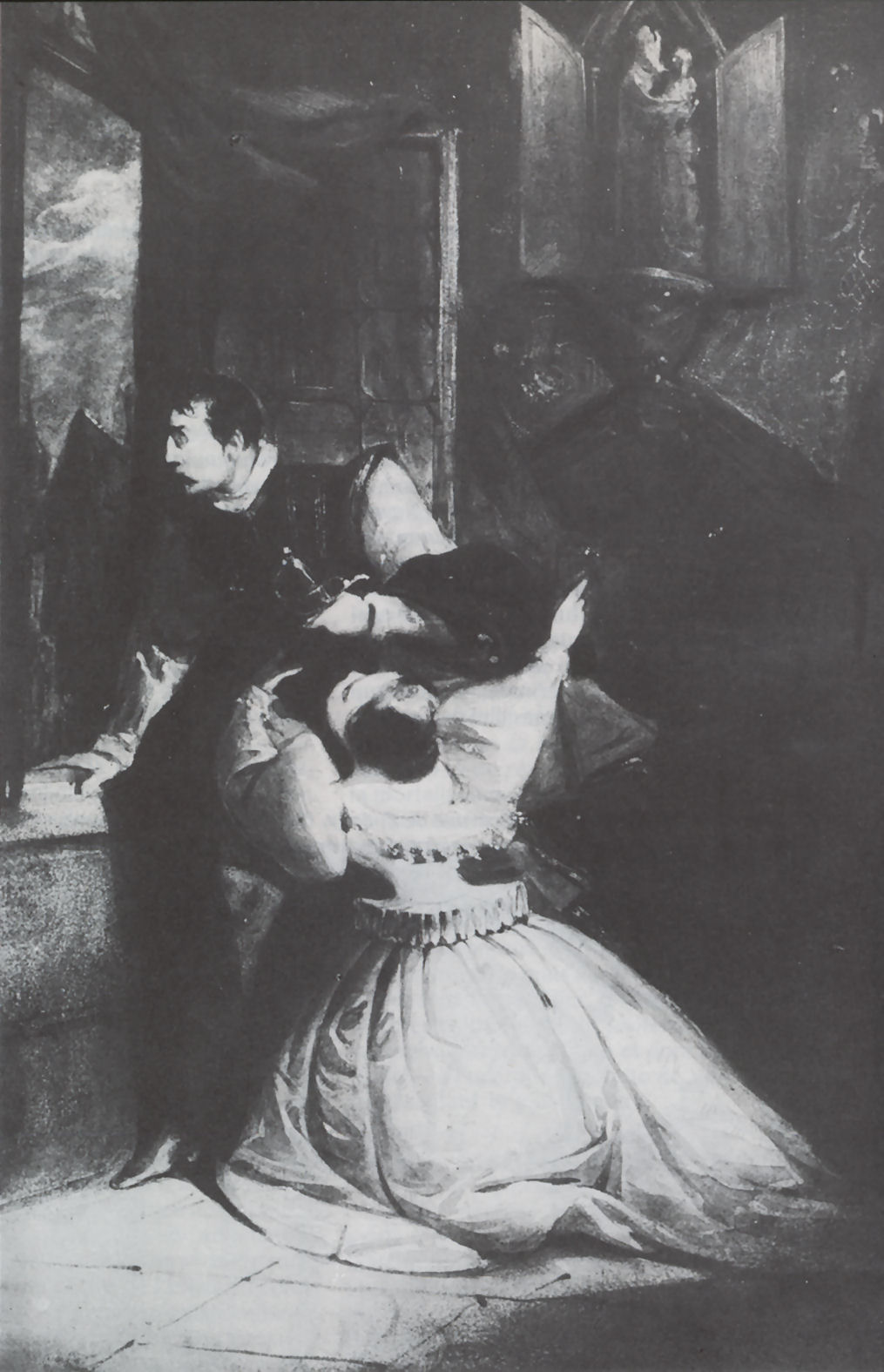 Les Huguenots: Act IV